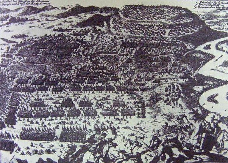 The Battle of Slankamen (1691), carving by Matthäus Merian